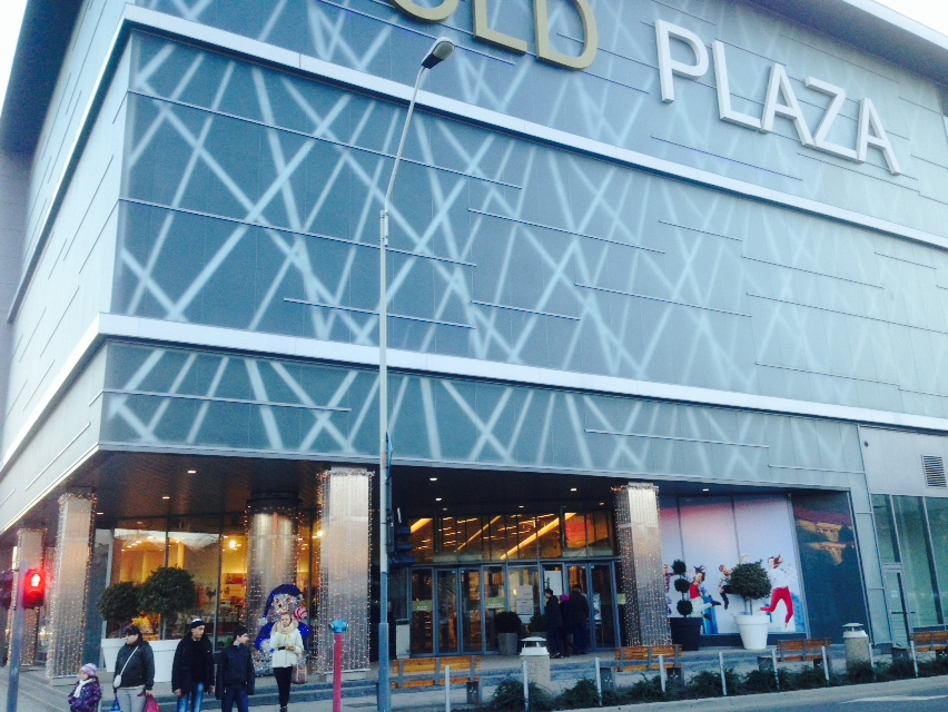 Gold Plaza departement store, Baia Mare, Romania.